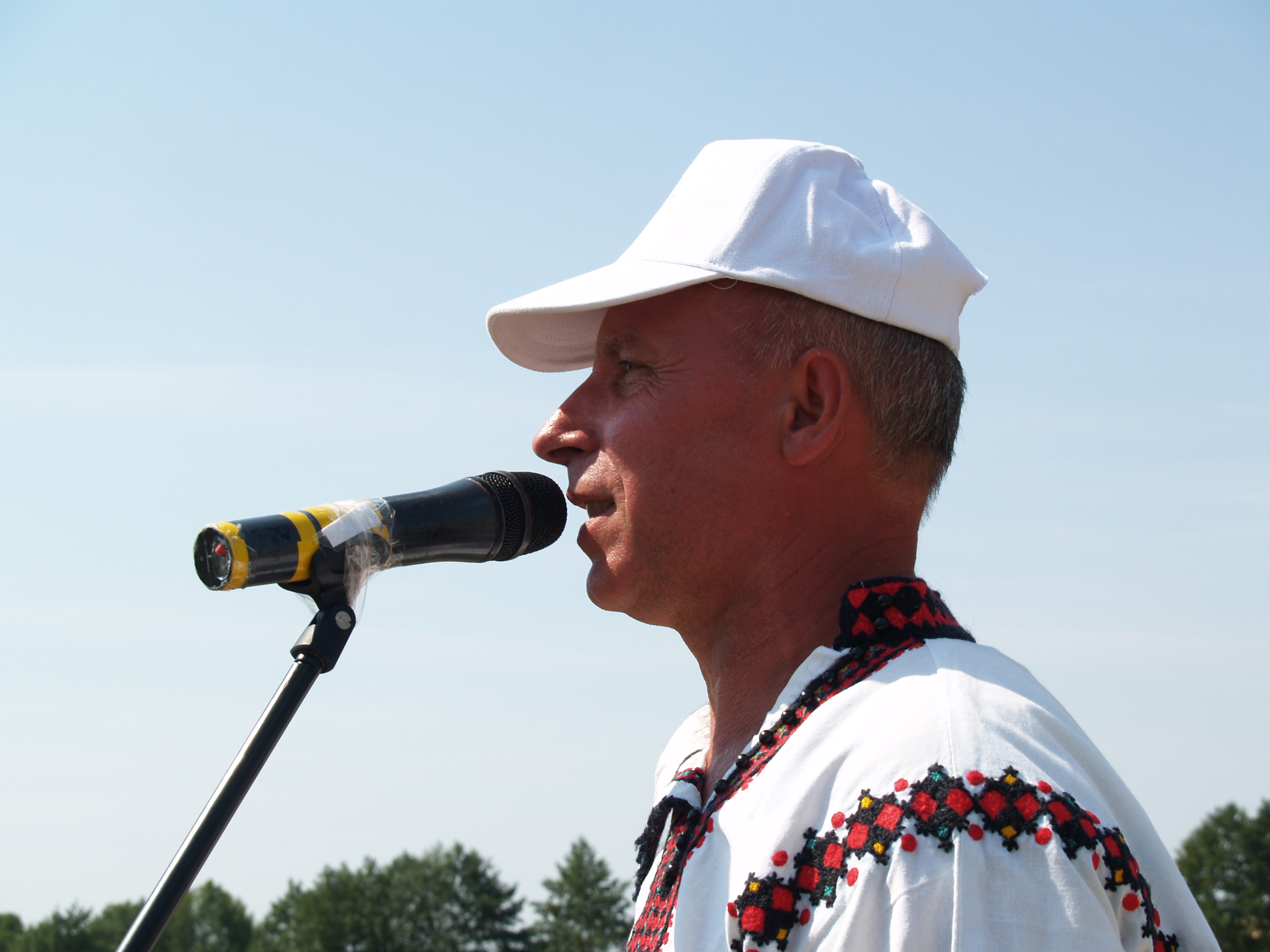 Erzya universal prayer (Rasken Ozks). the village of Chukaly, Bolsheignatovsky district, Mordovia. 7 July 2010. This photo has been taken in the country: Russia